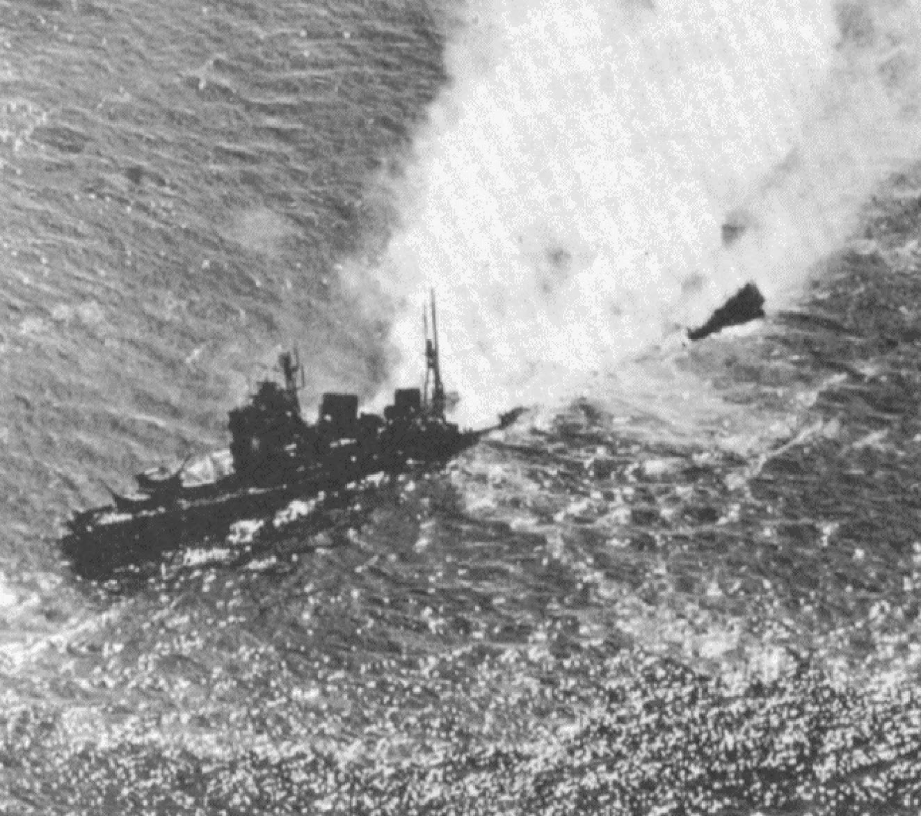 Japanese heavy cruiser Nachi break up to section after fourth attack (U.S. Navy 80-G-288872).